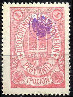 Stamp Russian mail on Crete